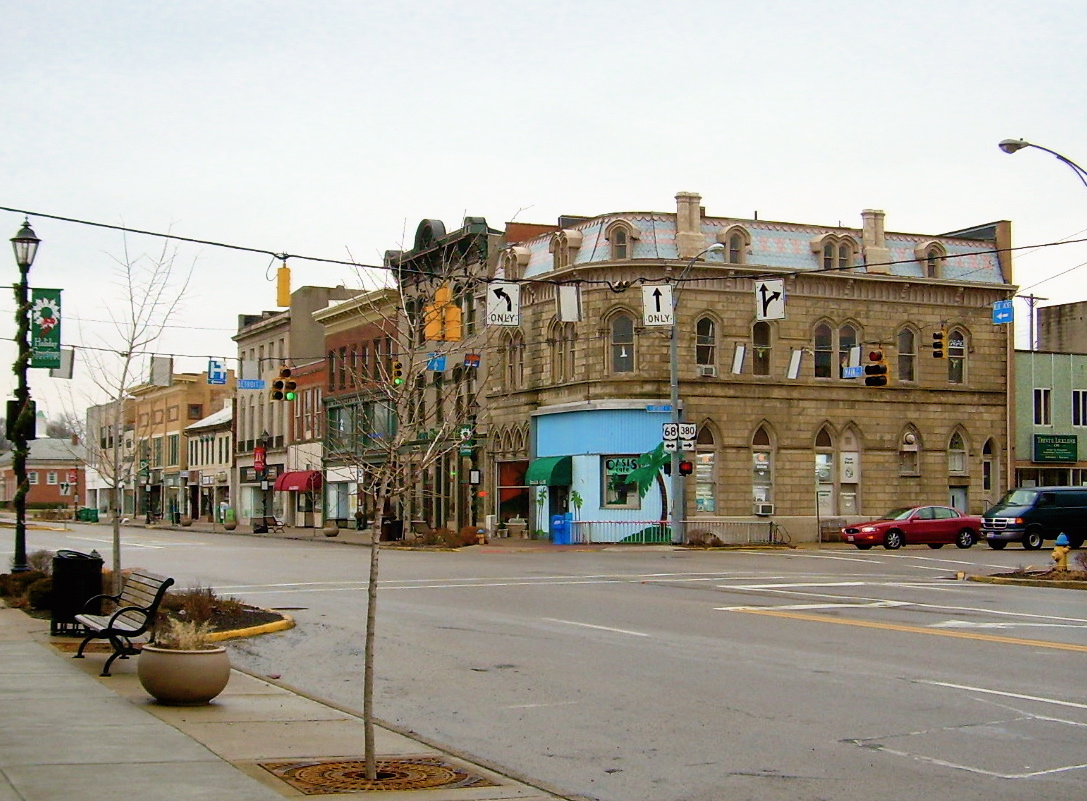 Willjay, taken by me. Xenia, Ohio. West Main Street at Detroit.